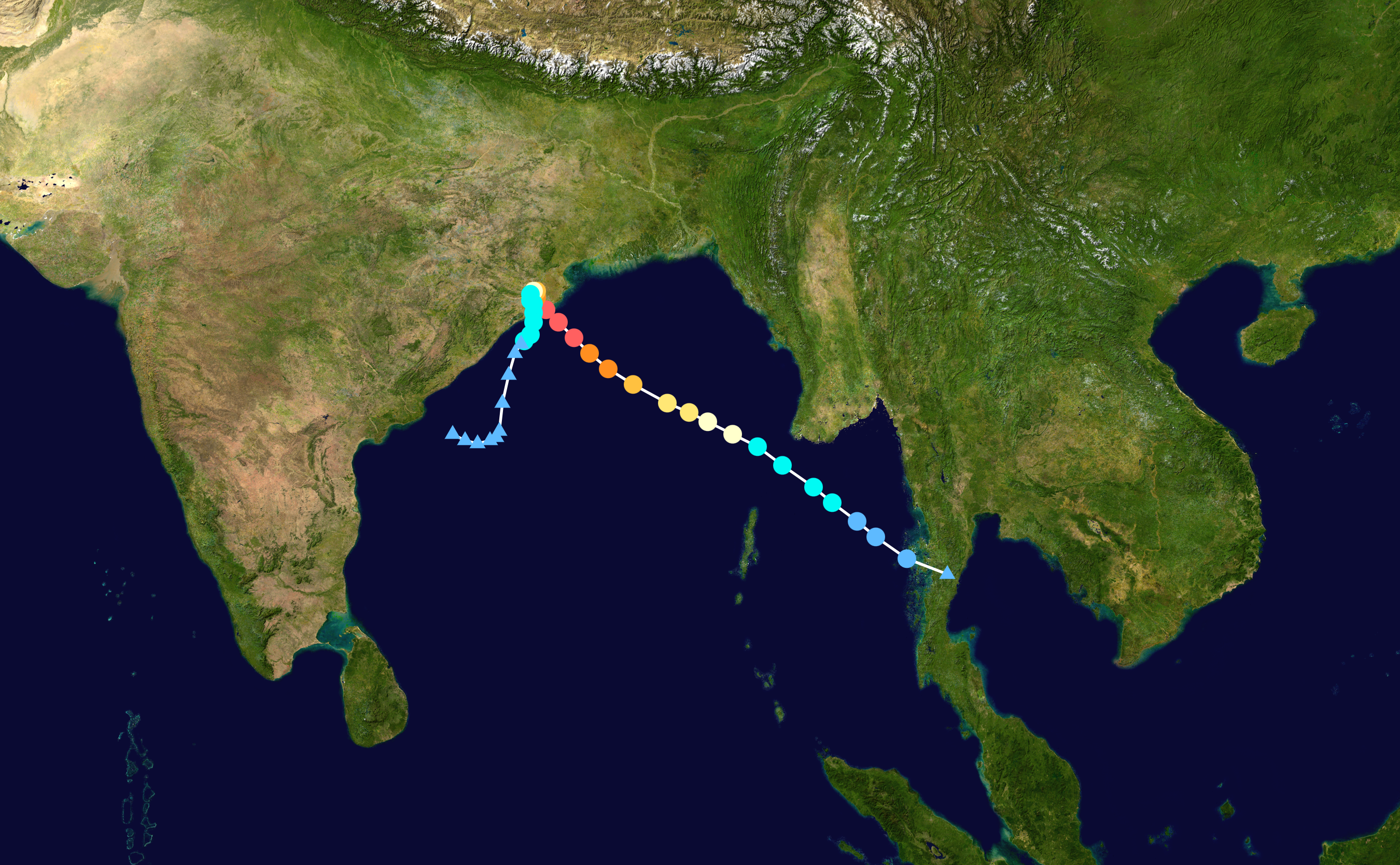 1999 Indian cyclone 05B track. Uses the color scheme from the Saffir-Simpson Hurricane Scale.